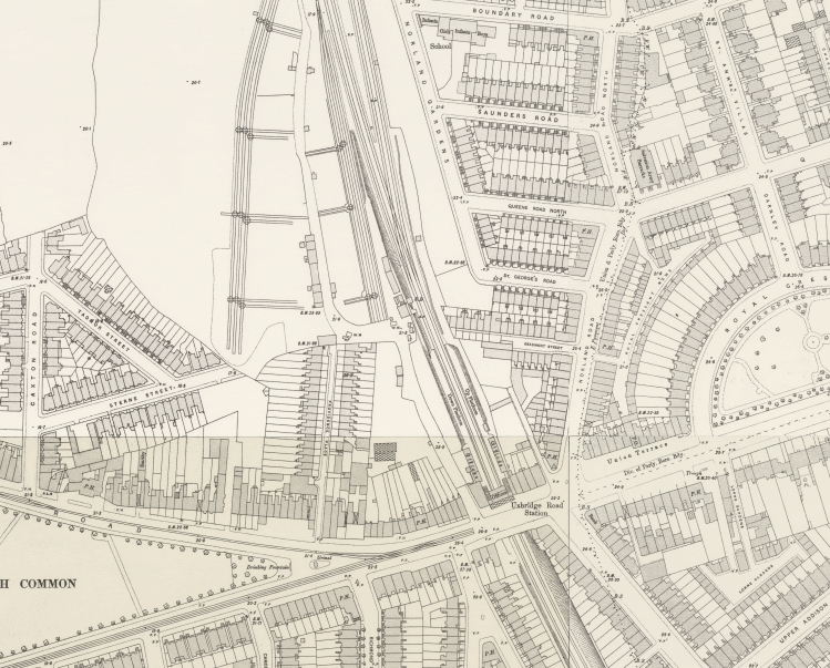 Location of the Uxbridge Road station, Shepherd's Bush on an Ordnance Survey Map. The station was opened in 1869 and closed in 1940. The site is now the location of Shepherd's Bush railway station.